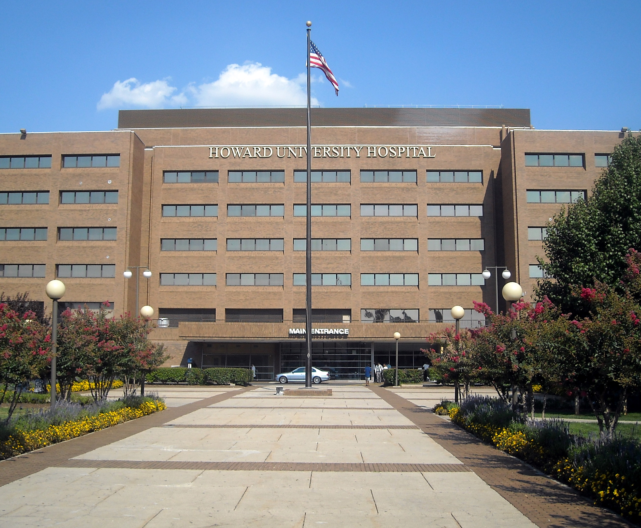 Howard University Hospital located at 2041 Georgia Avenue, NW in Washington, D.C.